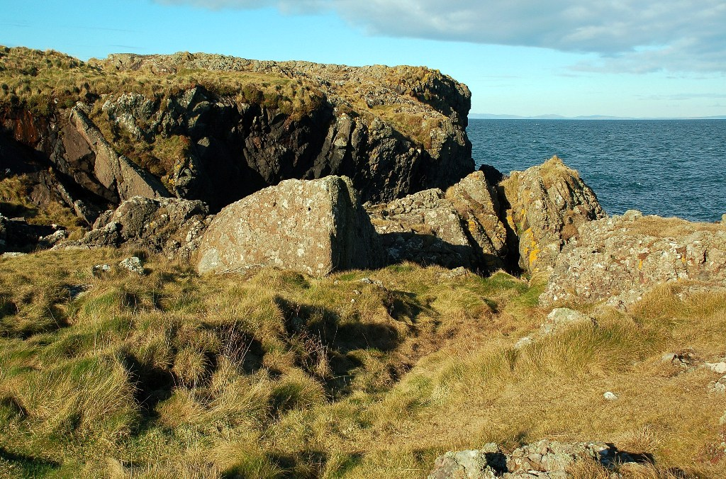 Ancient Fort at Corsewall Point The rocks here are the site of an ancient fort, which is marked on the Explorer Map. It would have been an excellent defensive site.